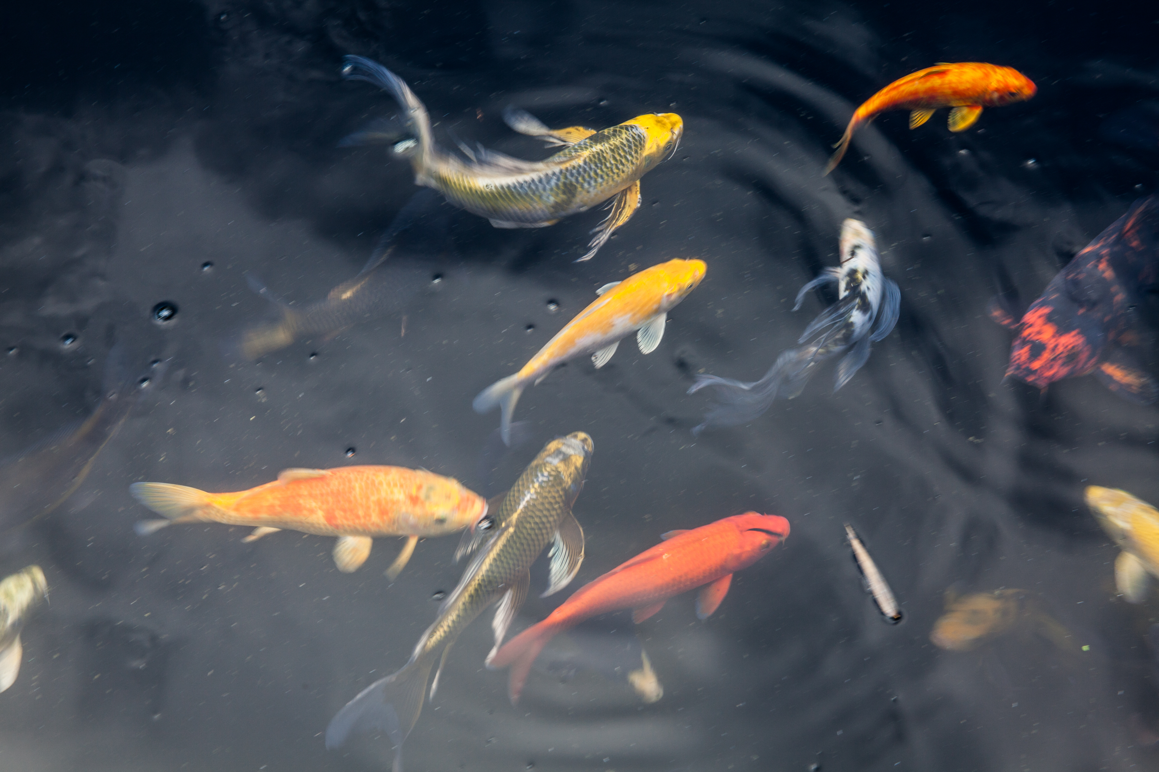 Koi at the Jacksonville Zoo & Gardens, in Jacksonville, Florida, United States.